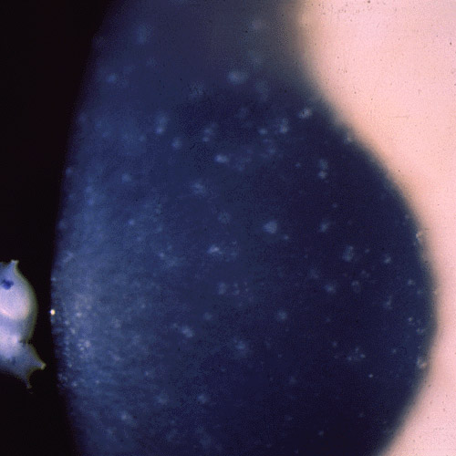 Meesmann corneal dystrophy. Multiple opaque spots in the corneal epithelium. Klintworth Orphanet Journal of Rare Diseases 2009 4:7